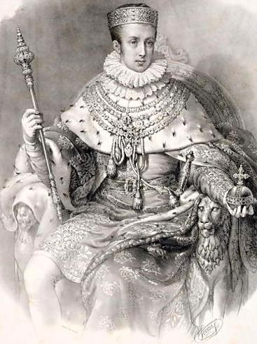 Portrait of Ferdinand Ist of Austria with Lombardo-Veneto's crown in 1838